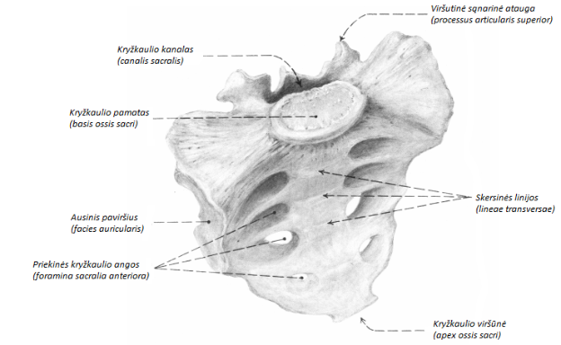 Picture shows pelvic surface of the sacrum and its parts in lithuanian and latin.